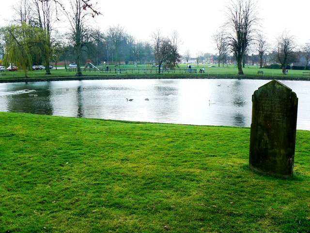 The Crammer, Devizes, Wiltshire from a churchyard